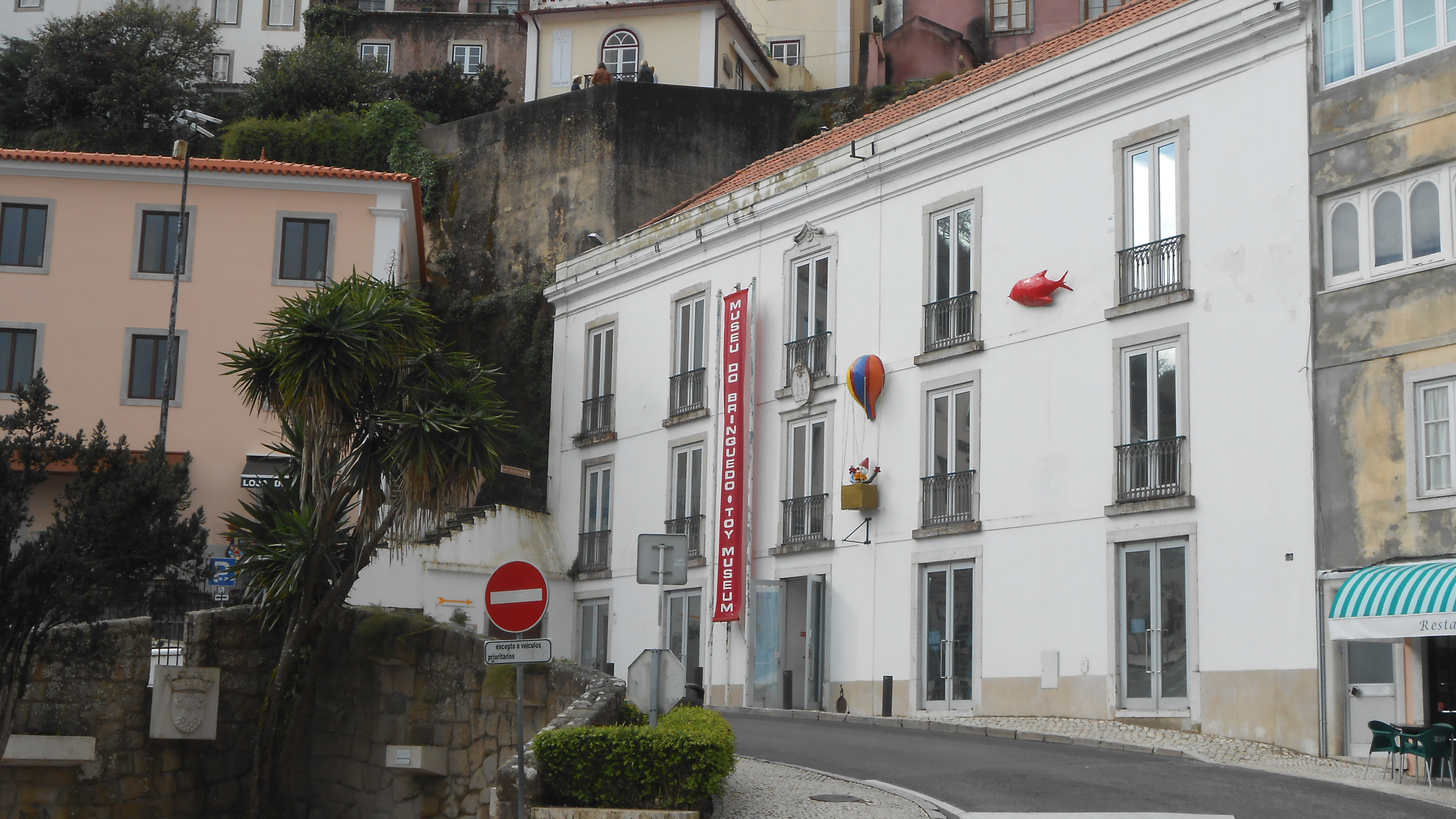 The toy museum in Sintra, Portugal.